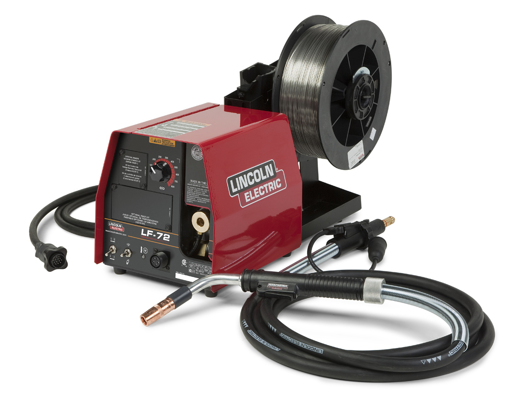 Cast aluminum wire drive system.